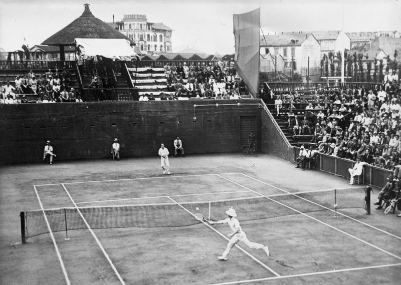 semifinals of the European Zone Davis Cup between Italy and Australia 1930